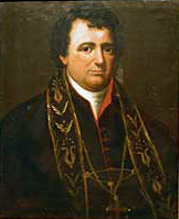 Painting of Benedict Joseph Fenwick, Bishop of Boston